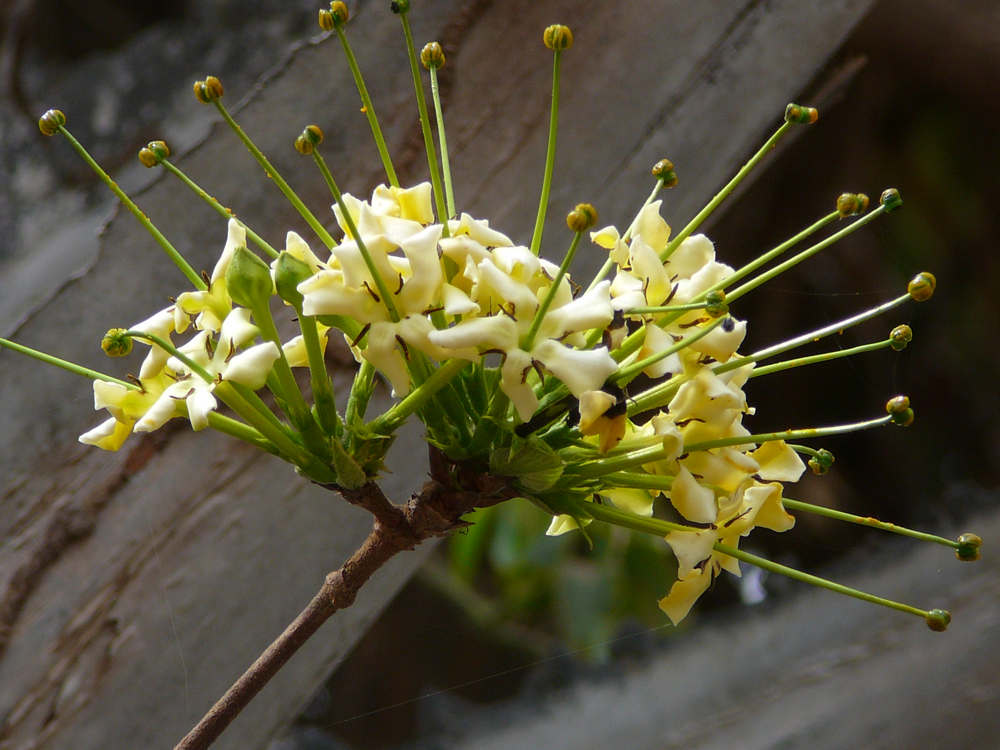 Macrosphyra longistyla